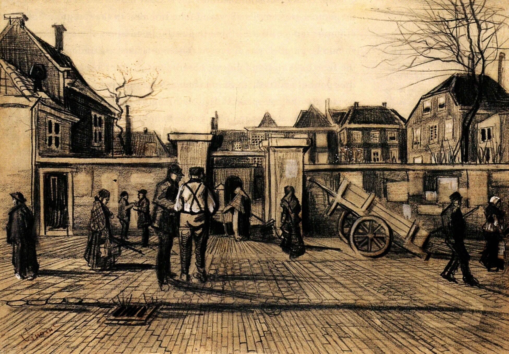 The (back-) entrance of the City Bank of Loans at the Korte Lombardstreet in The Hague, the Netherlands.